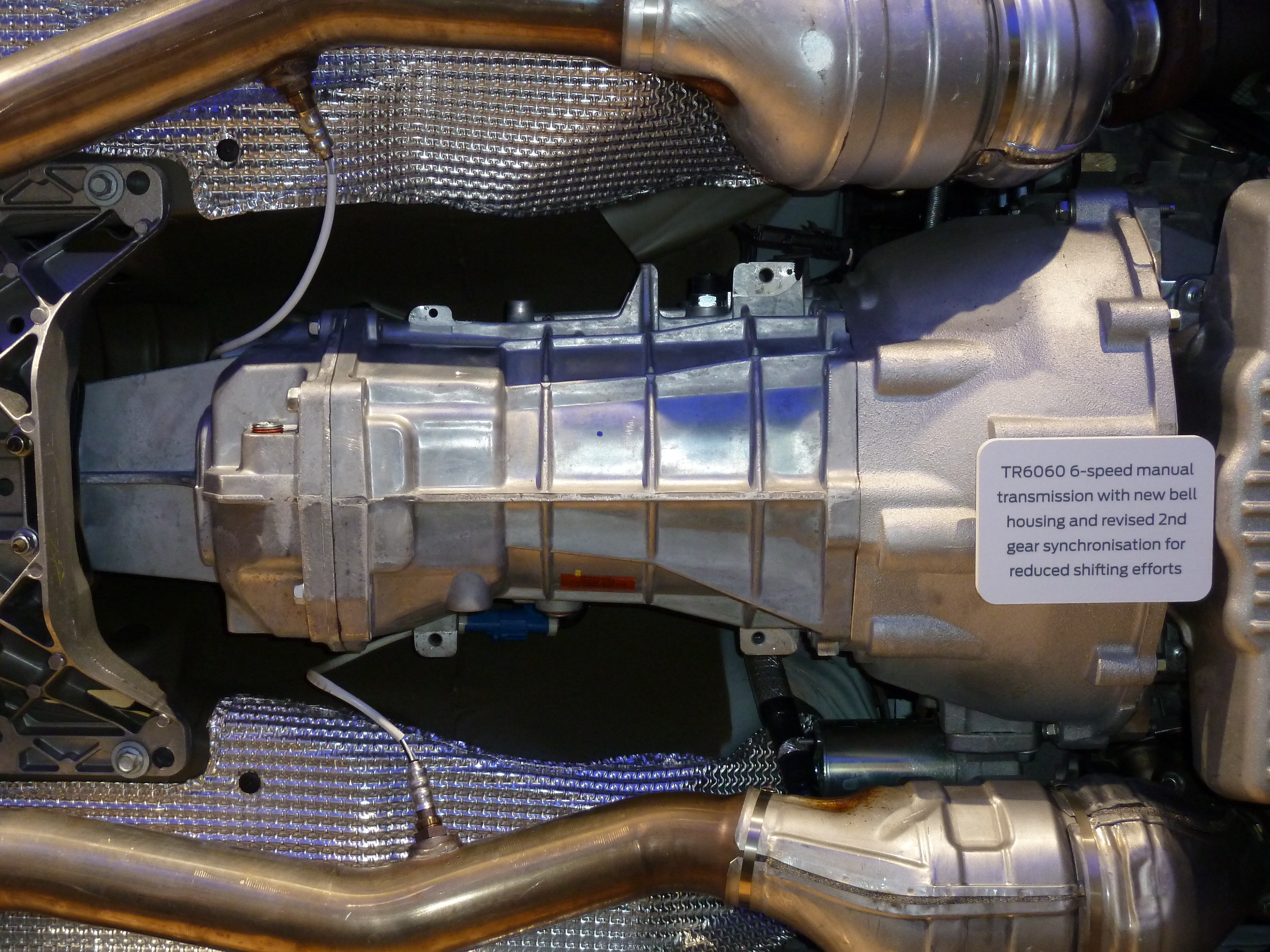 Tremec TR-6060 transmission (manual) of a 2010 FPV GT (FG) Boss 335 sedan. Photographed at the 2010 Australian International Motor Show, Sydney, New South Wales, Australia.